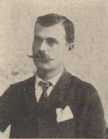 IMARO chetnik and bulgarian revolutionary Atanas "Tashko" Karev